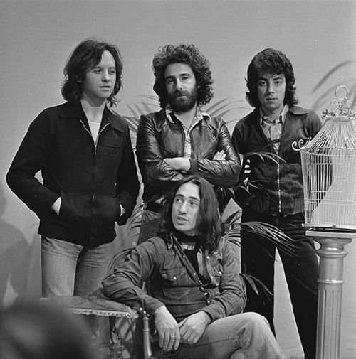 10cc in AVRO's TopPop (Dutch television show) in 1974